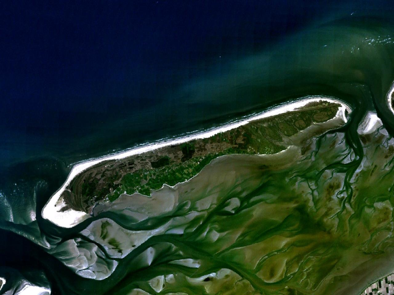 Terschelling, The Netherlands. Satellite view.